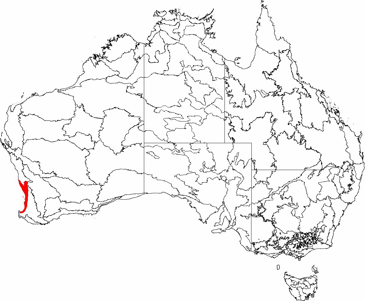 This is a map of the Interim Biogeographic Regionalisation of Australia (IBRA), with state boundaries overlaid. The Swan Coastal Plain region is shown in red.